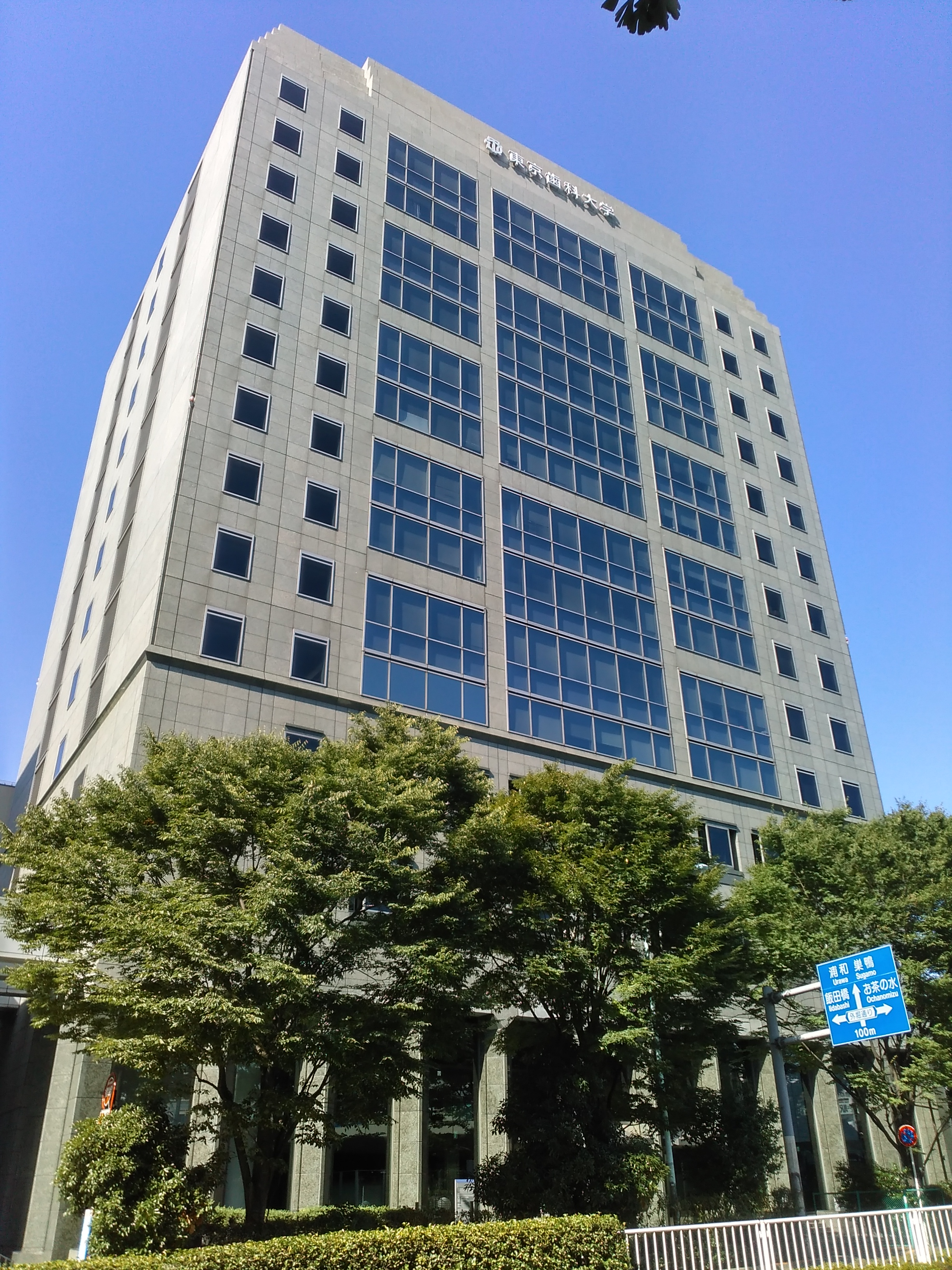 Main building of Suidobashi Campus, Tokyo Dental College, located in Chiyoda-ku, Tokyo, Japan.